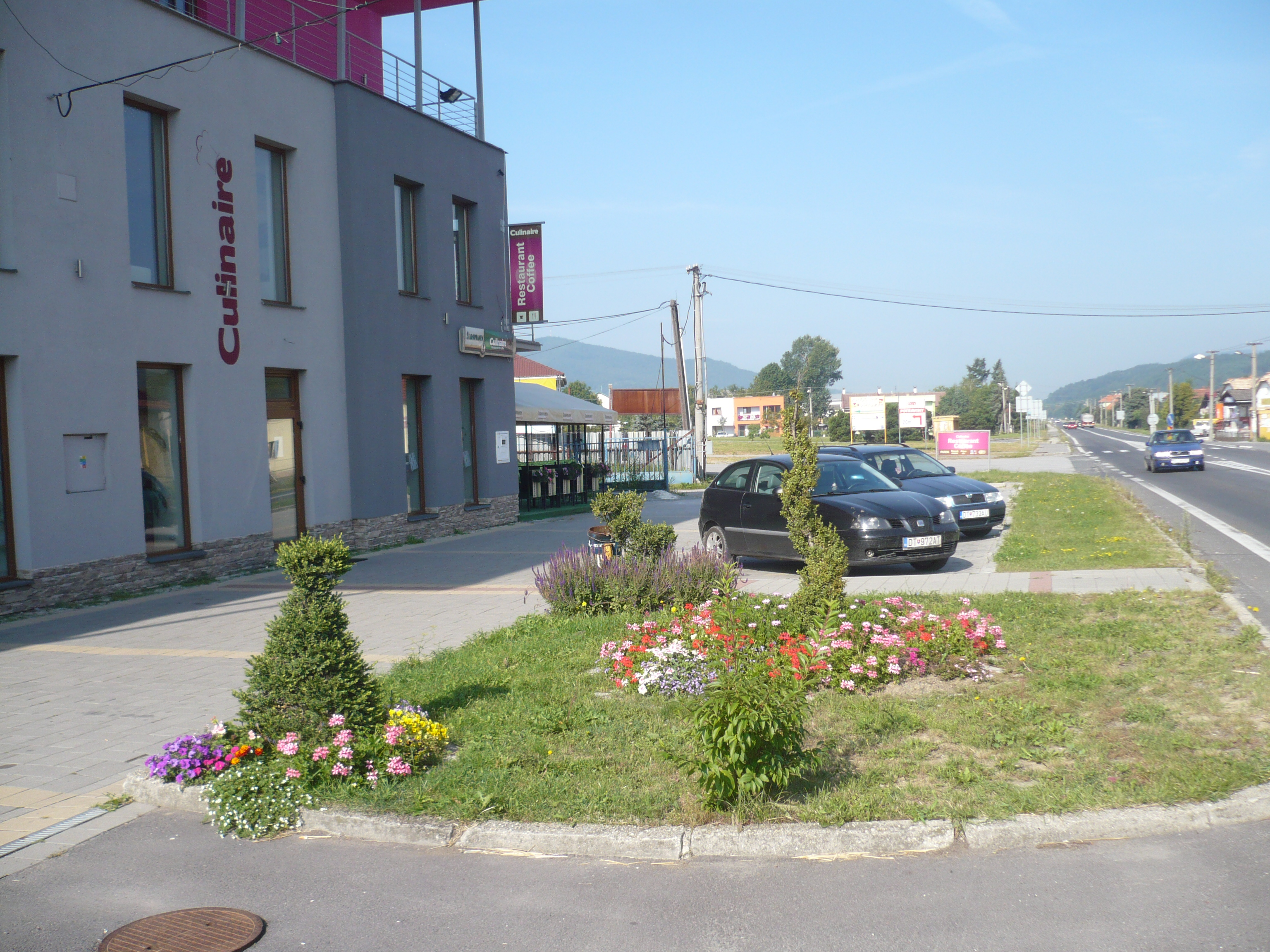 Kriváń, view on a center of the village Kriváň, pohľad na centrum obce